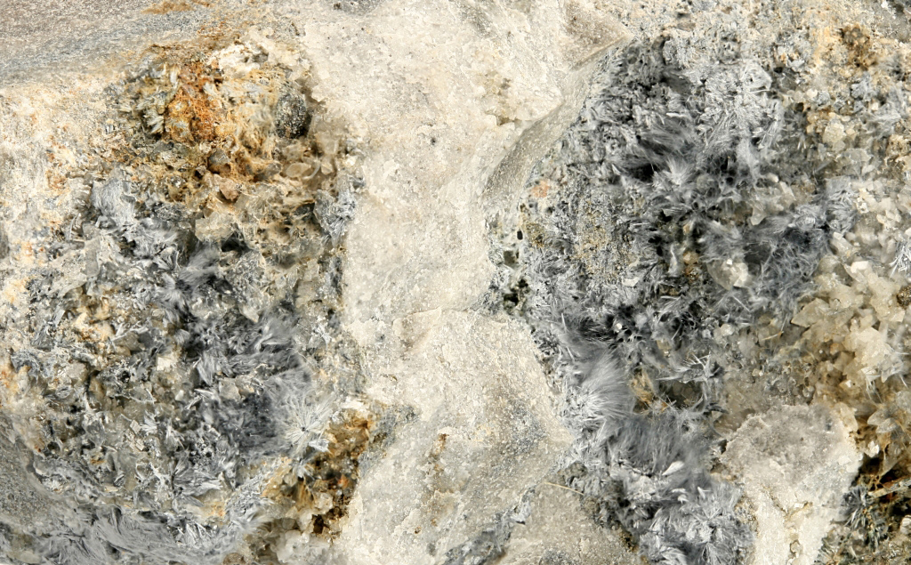 Riebeckite, Calcite, Dolomite, Donnayite Group (FOV ~ 4.5 cm wide) Locality: Poudrette quarry (Demix quarry; Uni-Mix quarry; Desourdy quarry), Mont Saint-Hilaire, Rouville RCM, Montérégie, Québec, Canada Original description: FOV ~ 4.5 cm wide. Found 1996. This is from hornfels and MSH collectors call it "riebeckite" - but it has not been analyzed. This material is found abundantly but infrequently. It may be "under collected" because it's rather ugly when wet and muddy - as if often the case. But when cleaned up, the blue color is quite attractive. There are some very small calcite "cones" and translucent dolomite rhombs (esp top). There are also quite a few gray donnayite group "pagodas" with white caps. Likely these are ewaldite with donnayite-(Y). In any case, they are too small to make out in the photo.